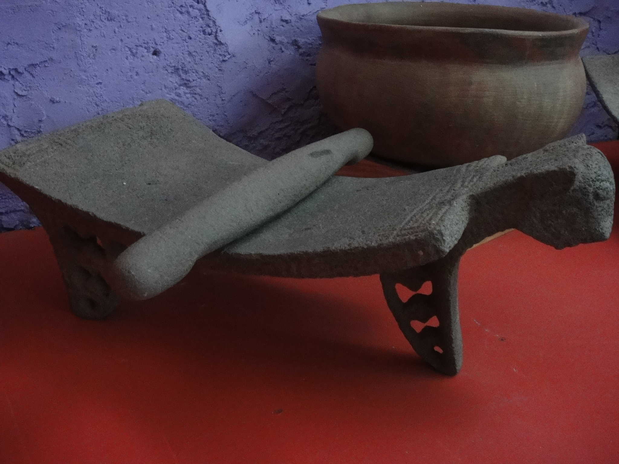 Metate (Grinding Stone), Museo El Ceibo, Ometepe, Nicaragua.